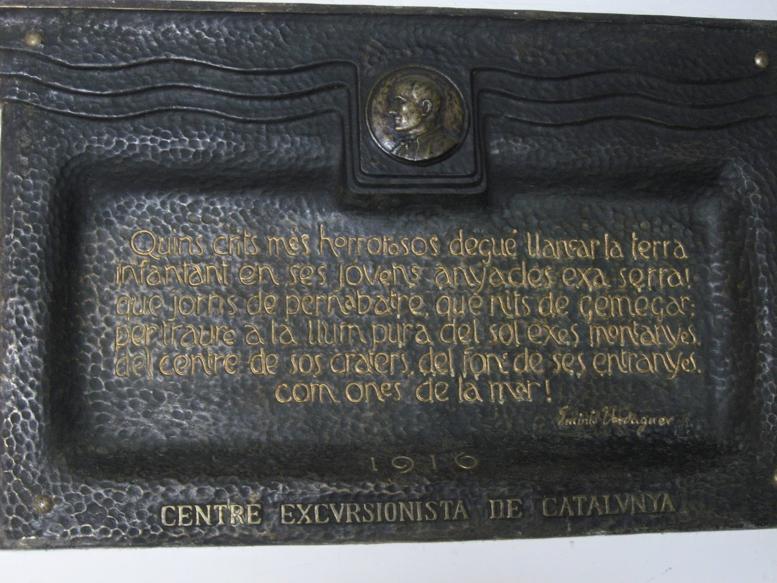 Commemorative plaque made in 1916 for the inauguration of La Renclusa, as a iniciative of Mn. Jaume Oliveras and in honour of Mn. Jacint Verdaguer, the Catalan poet of the Pyrenees